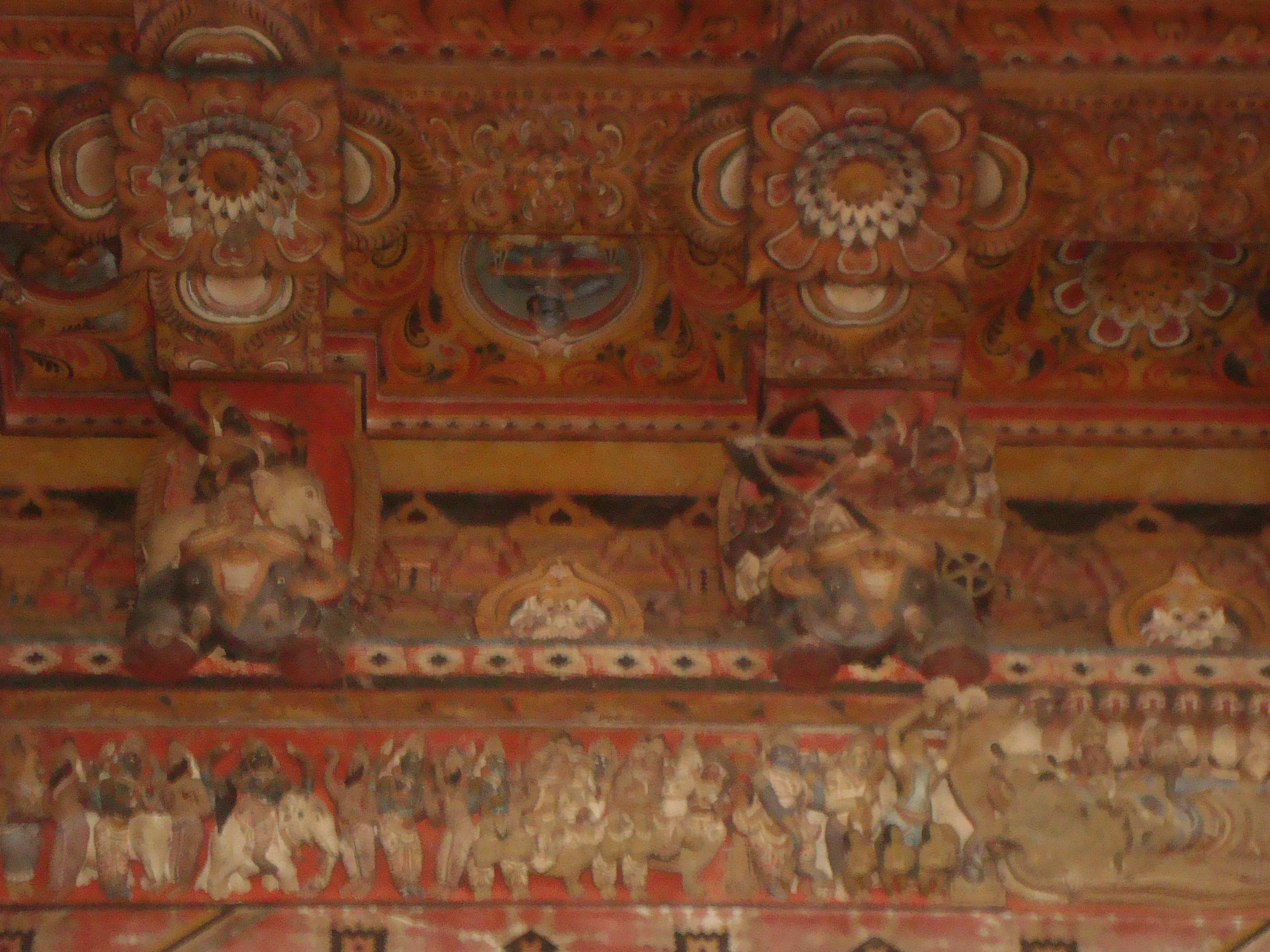 Kodoth Bhagavathi Temple, Kodom, Kasargod, Kerala